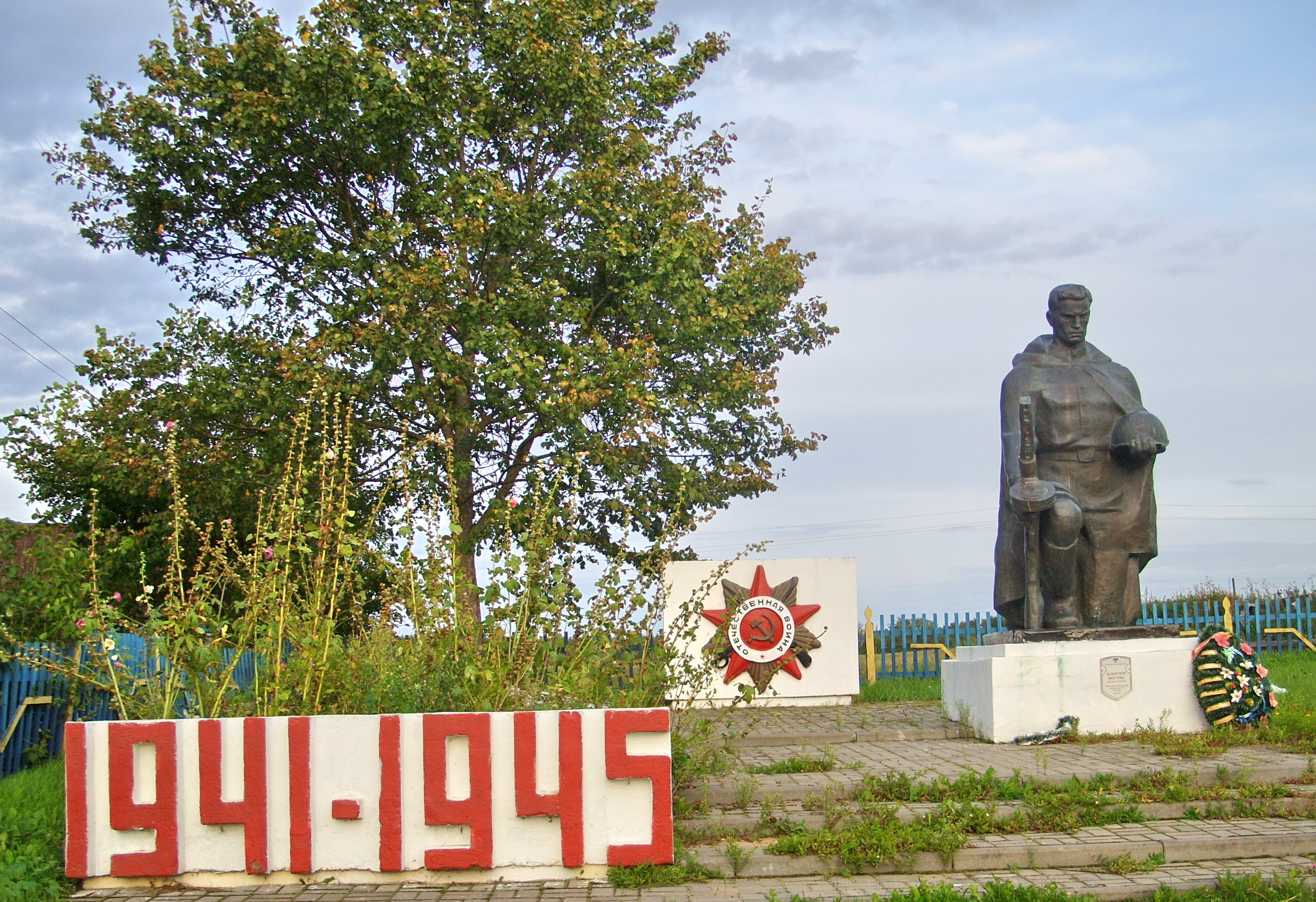 Беларуская (тарашкевіца): Вайсковыя могілкі. в. Прудок This is a photo of Belarusian heritage monument. Reference number: 213Д000355 ( WLM)